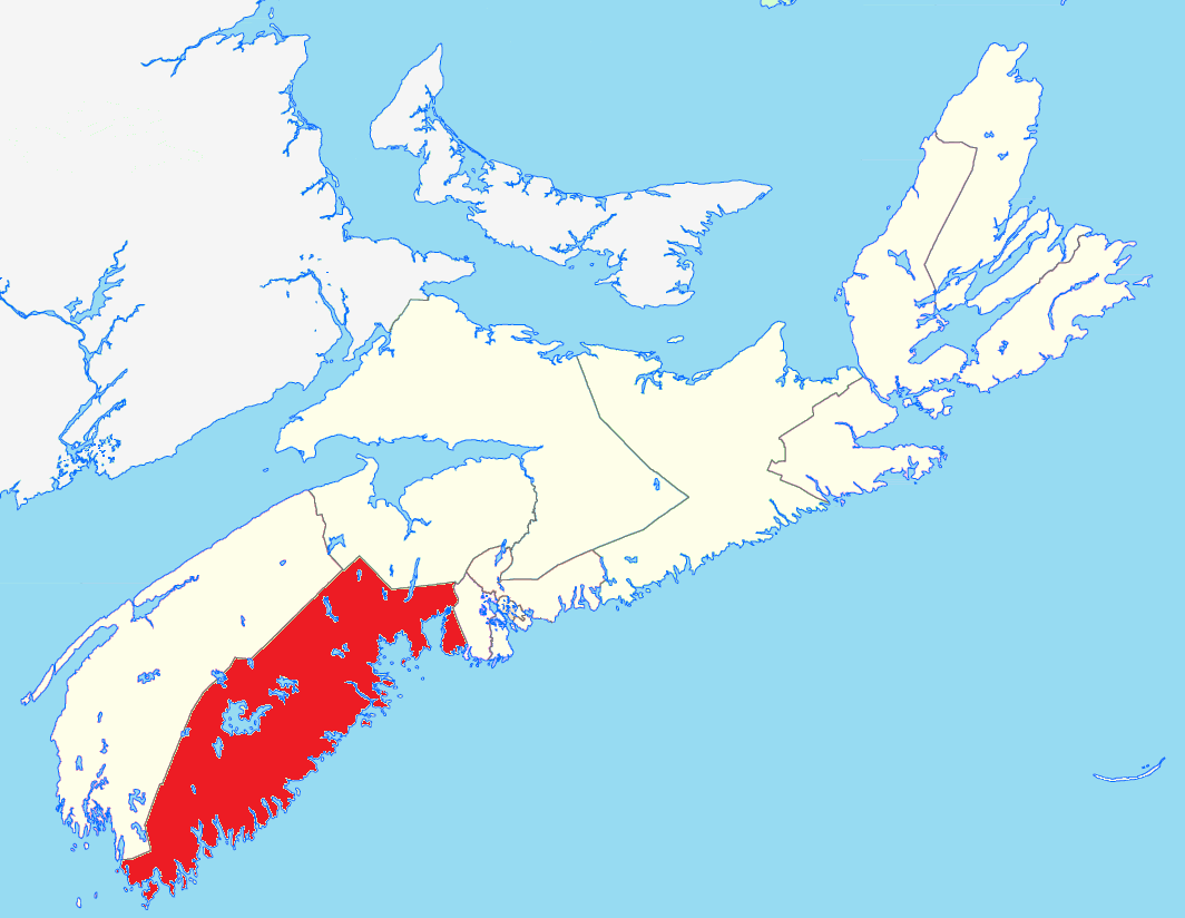 Map of South Shore-St. Margaret's